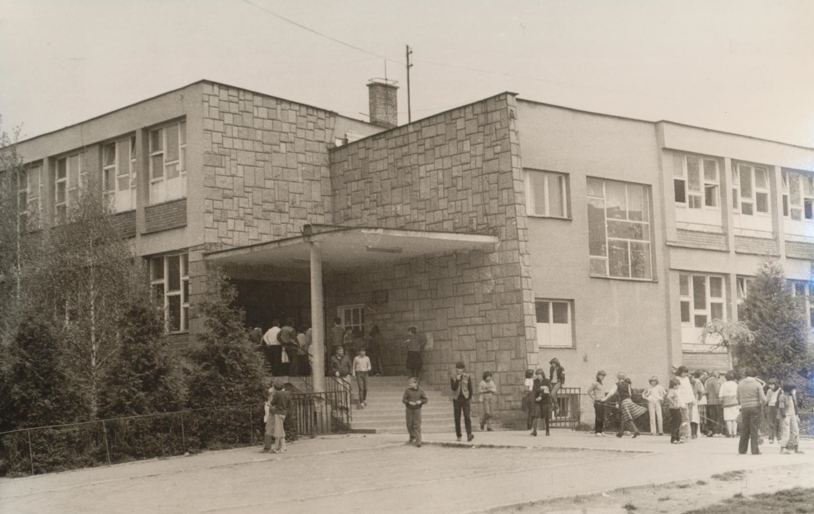 Brigades at school "Dusan Radovic"